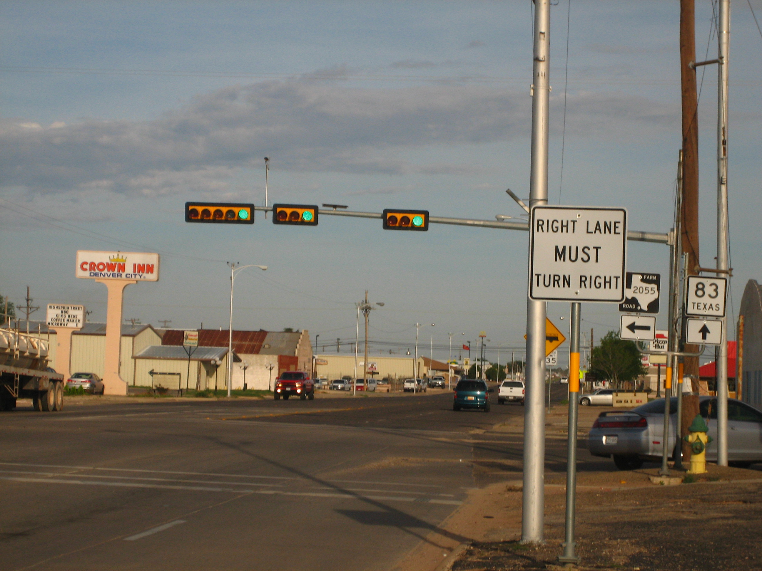 I took photo on July 11, 2008.Billy Hathorn (talk) 03:42, 22 July 2008 (UTC)